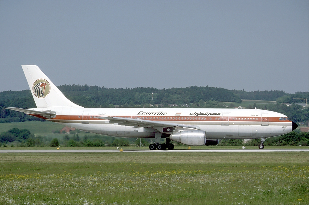 A Airbus A300 of Egyptair at Zurich Airport